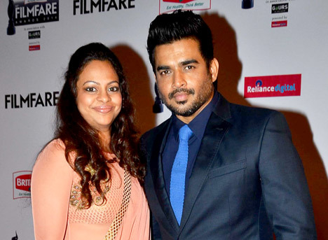 Actor Madhavan and his wife Sarita at the 60th Filmfare Awards